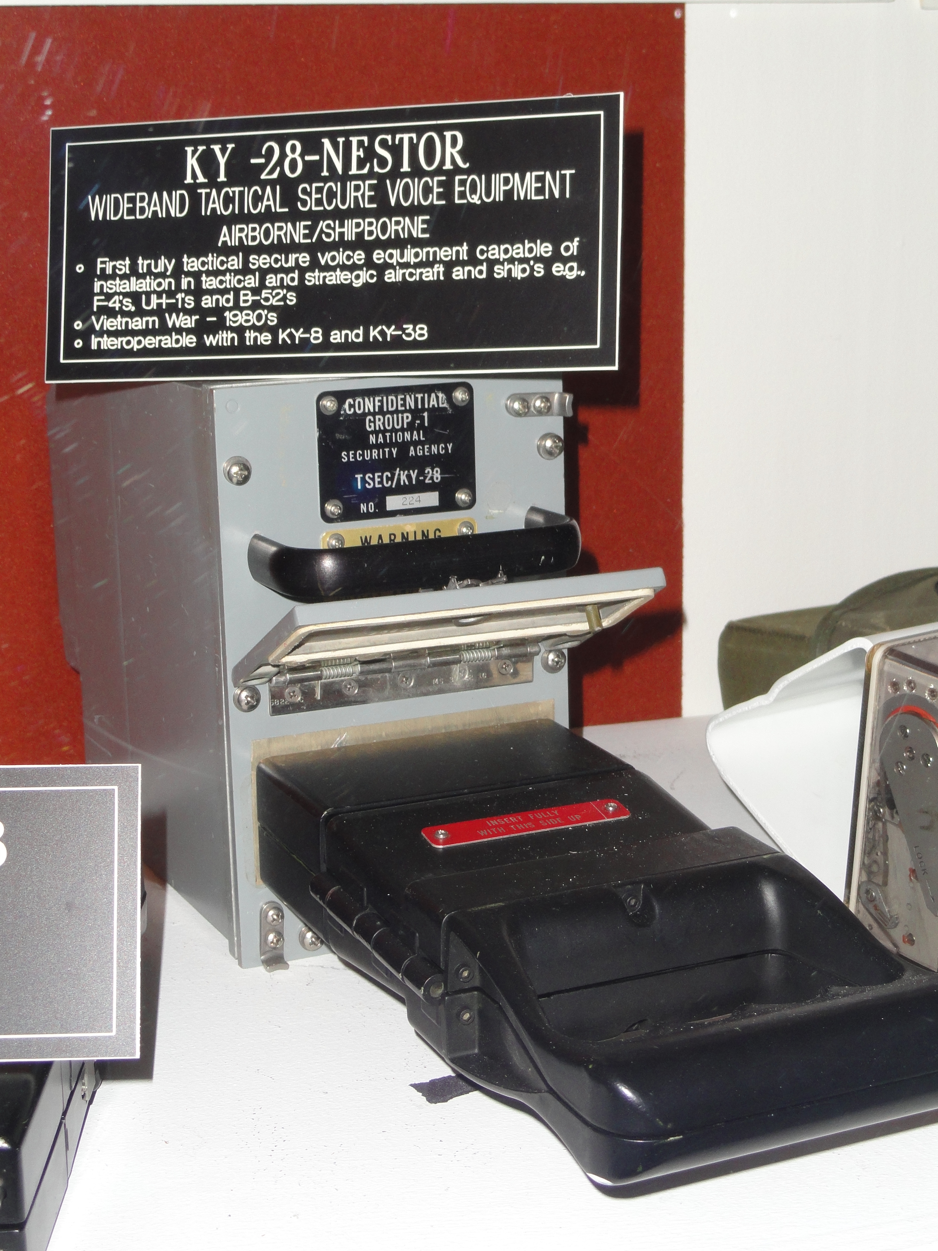 Exhibit in the National Cryptologic Museum, Fort Meade, Maryland, USA. All items in this museum are unclassified; items created by the United States Government are not subject to copyright restrictions.